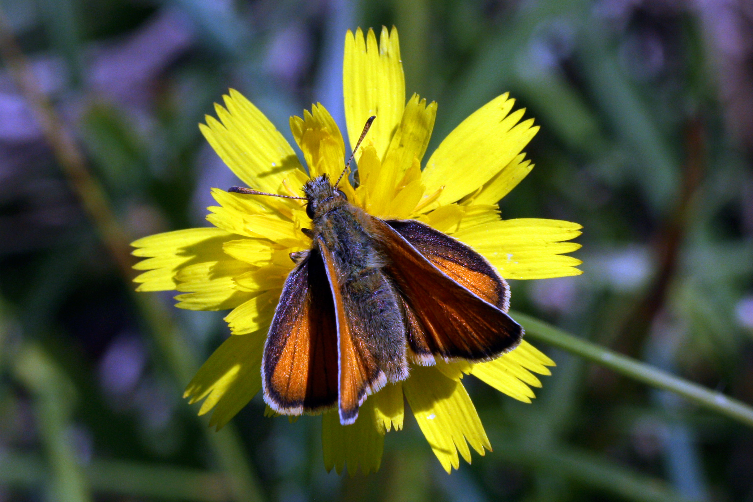 Essex skipper butterfly (Thymelicus lineola) female